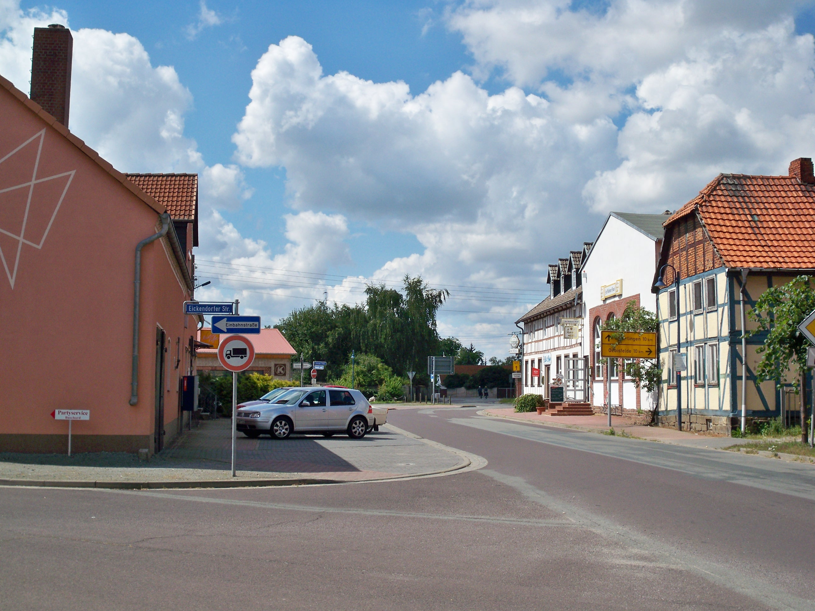 Rätzlingen, Oebisfelde-Weferlingen, Saxony-Anhalt, main street